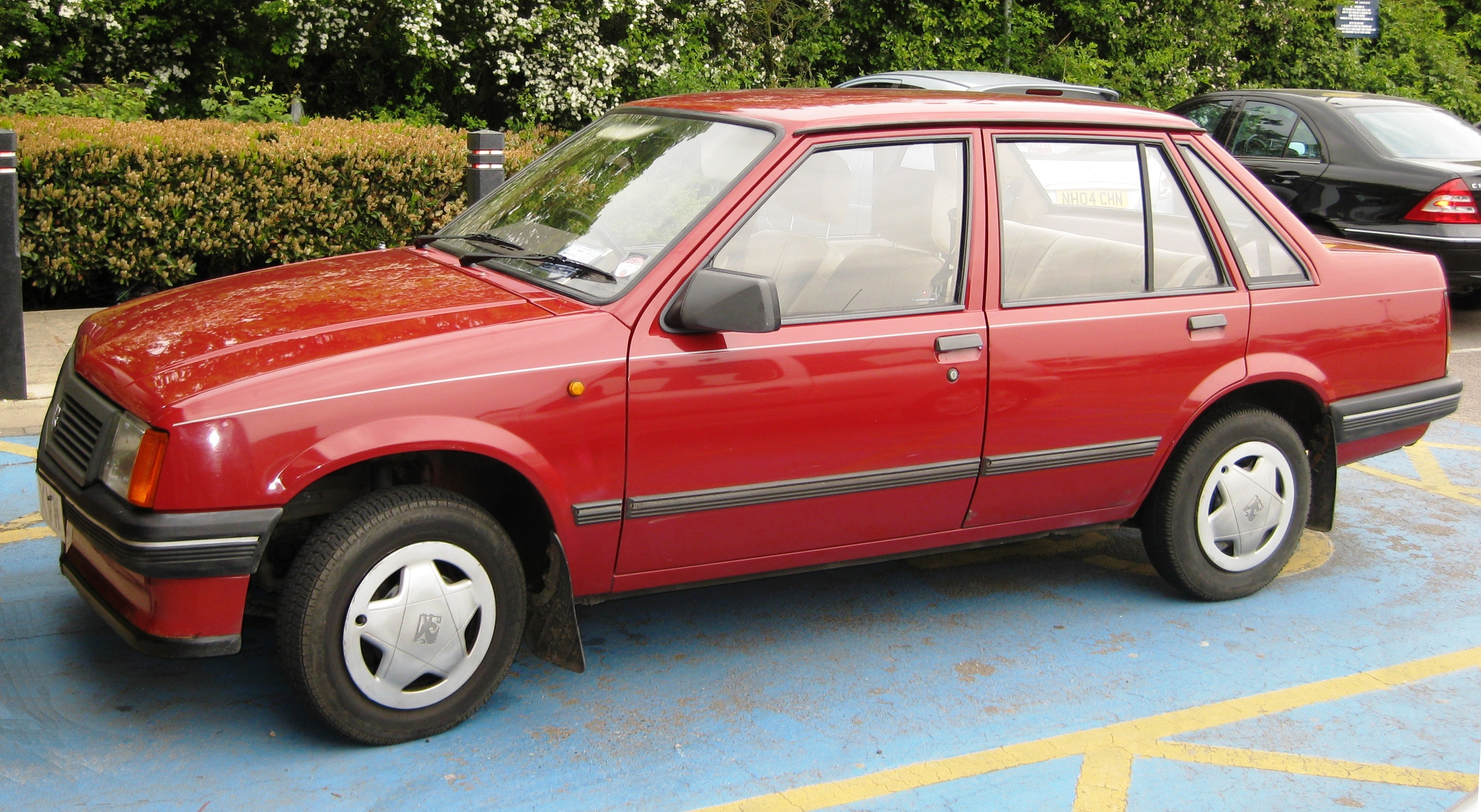 Vauxhall Nova (branded in continental Europe as the Opel Corsa) 4 door notchback 1989 outside a large supermarket on the edge of Maldon in Essex, England